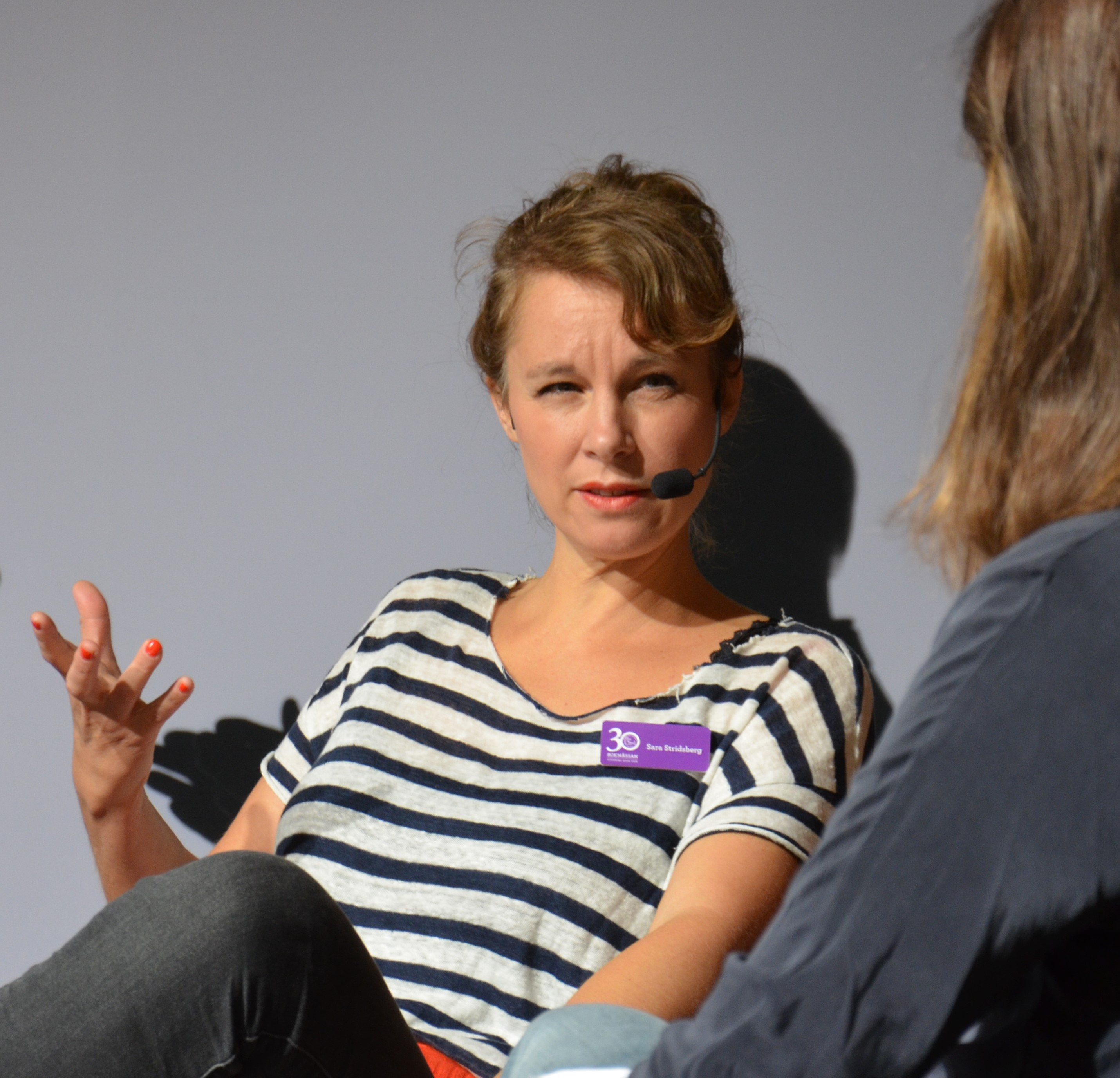 Sara Stridsberg intervjuas på Bokmässan i Göteborg 2014